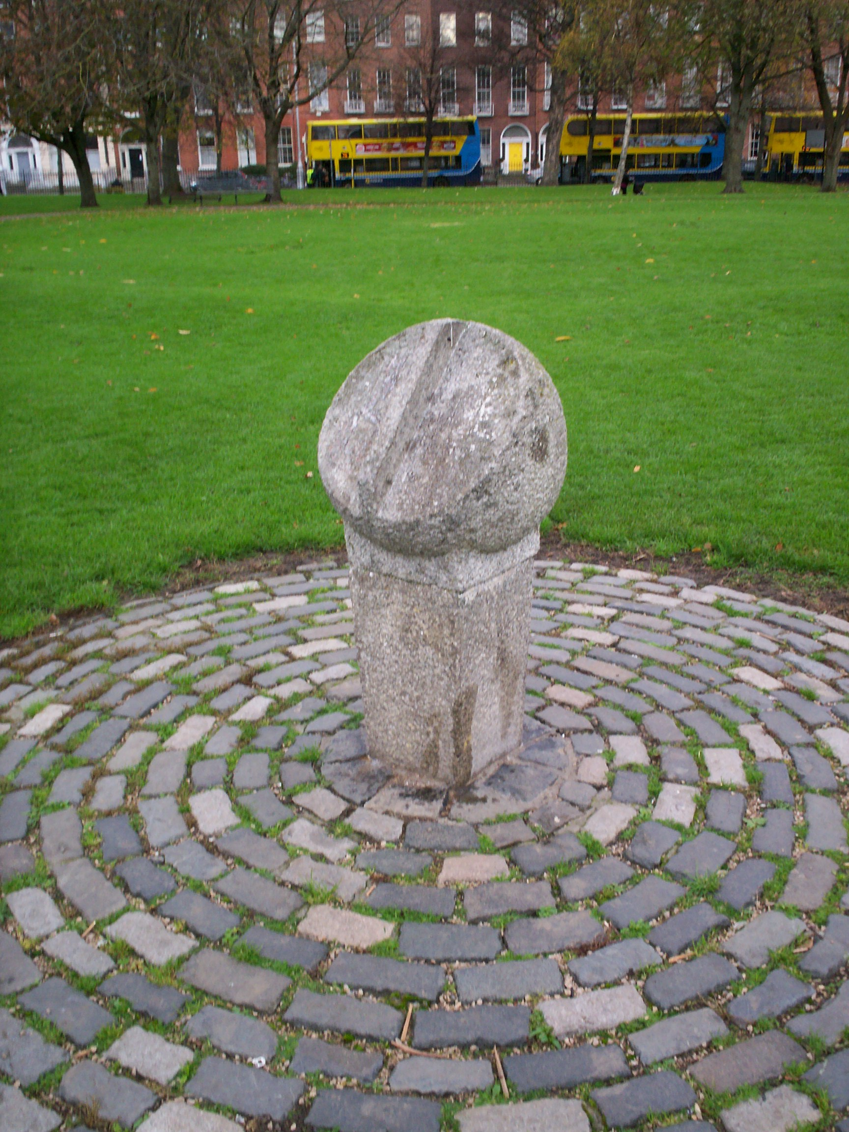 Granite sundial in Mountjoy Square Park, Dublin with the word "Tempus" inscribed on it